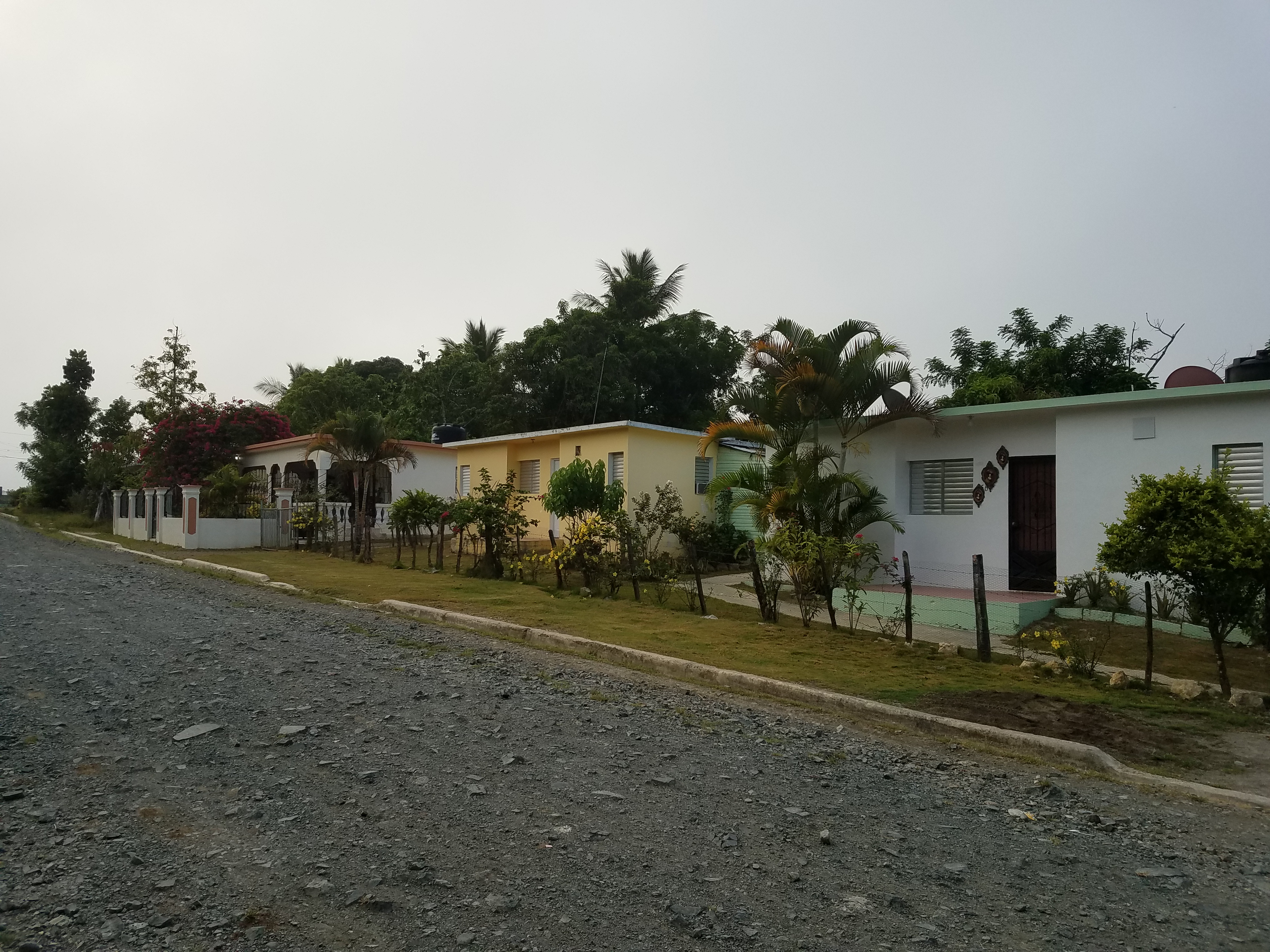 Casa contruida en 1998